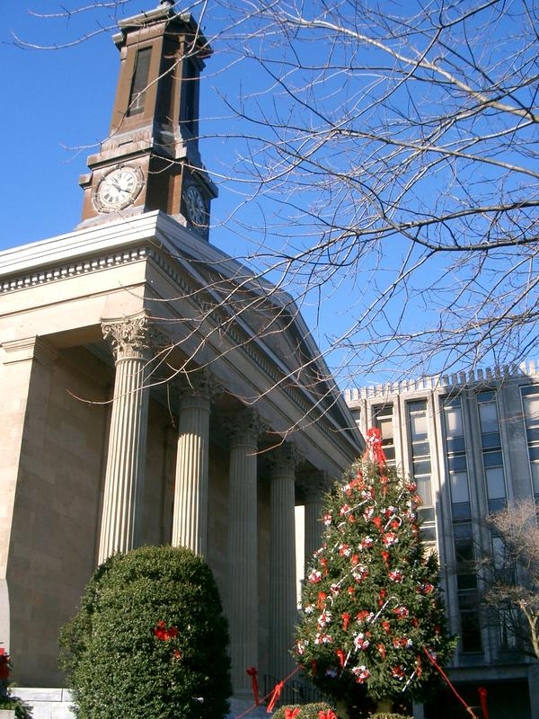 Chester County Courthouse in West Chester, Pennsylvania, United States. Built in 1846, the courthouse is listed on the National Register of Historic Places.